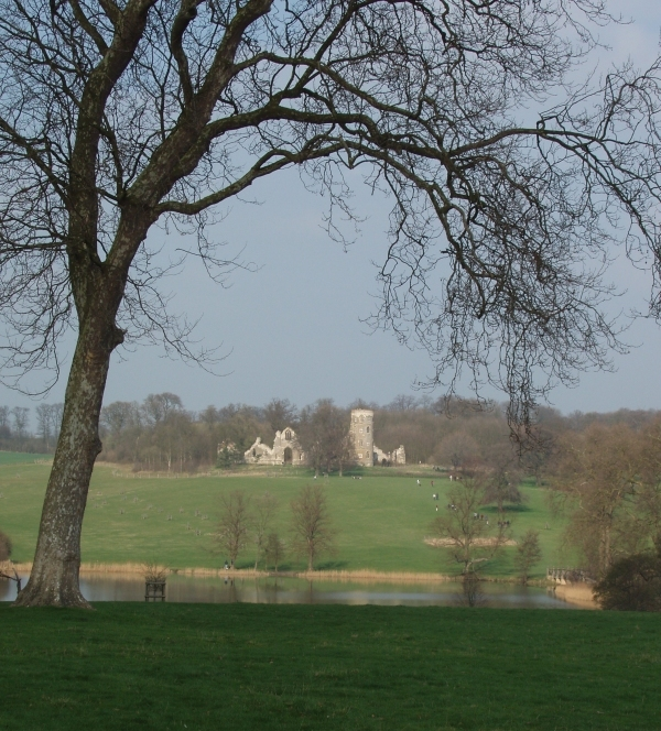 The grounds and folly of Wimpole Hall, Cambridgeshire, UK. Taken by myself, 2005-03-28, CC-By license.